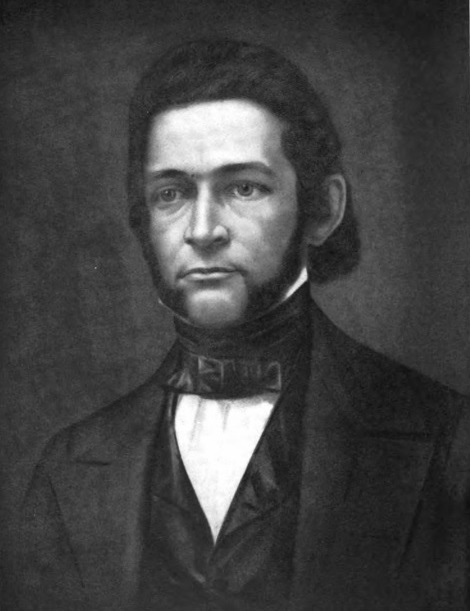 Alexander W. Buel (Michigan Congressman)